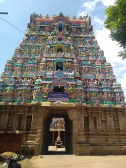 Koranattukaruppursundaresvarar temple கொரநாட்டுக் கருப்பூர் சுந்தரேசுவரர் கோயில்